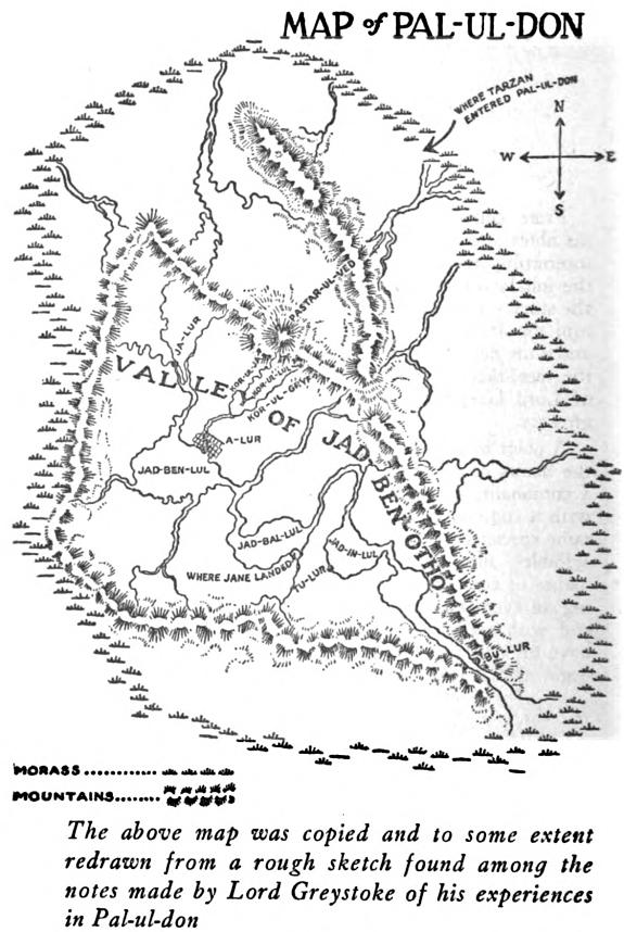 Map of Pal-ul-don, from the first edition of Tarzan the Terrible (1921)